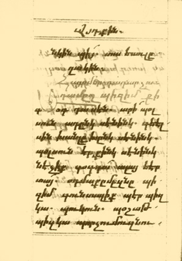 A prayer from the manuscript of Arm.5 of the National library in Paris (Armenian-Cuman language)